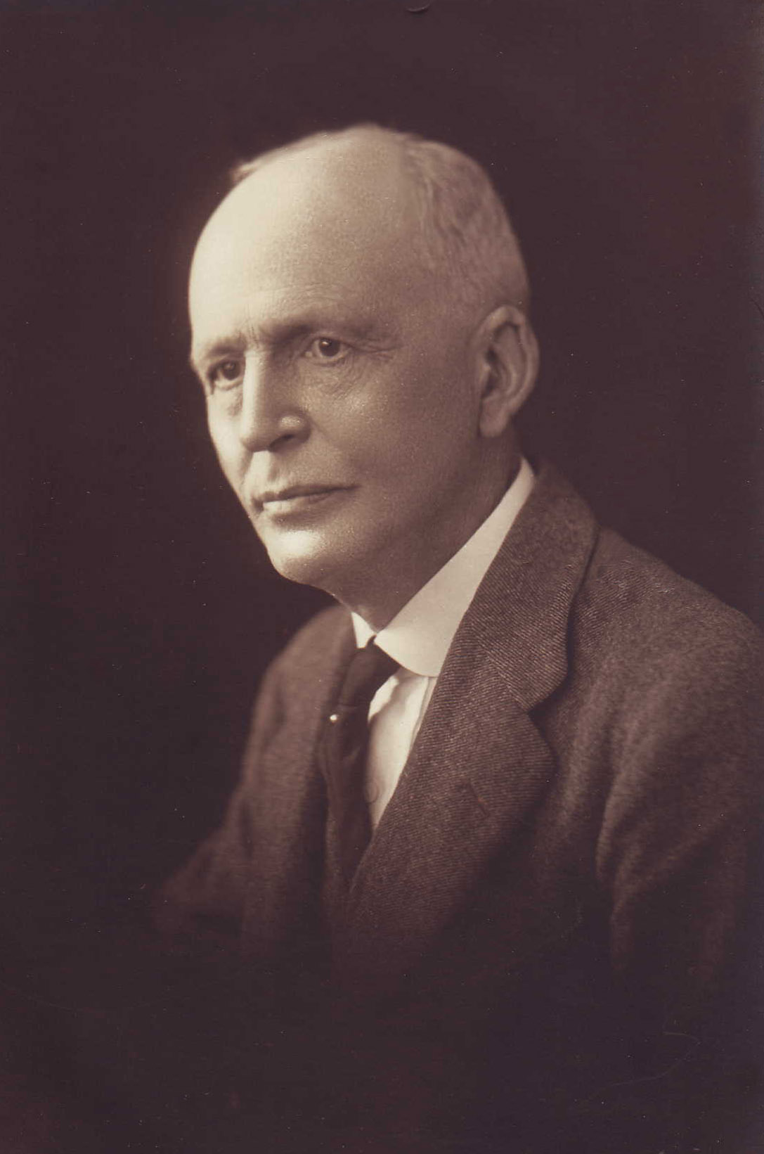 Sir William Mitchell, K.C.M.g. (1861–1962), Vice–Chancellor of the University of Adelaide between 1916 and 1942, and Chancellor of the university from 1942 until 1948, as well as lecturer at the University of Edinburgh from 1887 to 1890, University College in London from 1891 to 1894, and professor at the University of Adelaide from 1894.